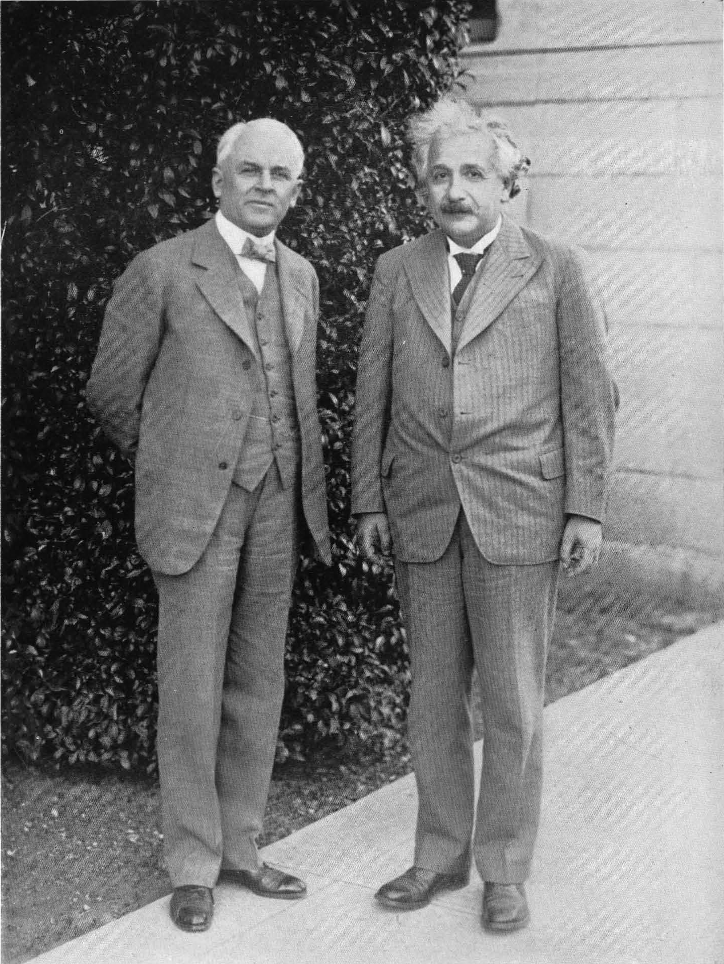 Robert A. Millikan and Albert Einstein at the California Institute of Technology